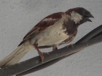 పిచ్చుక. మగది